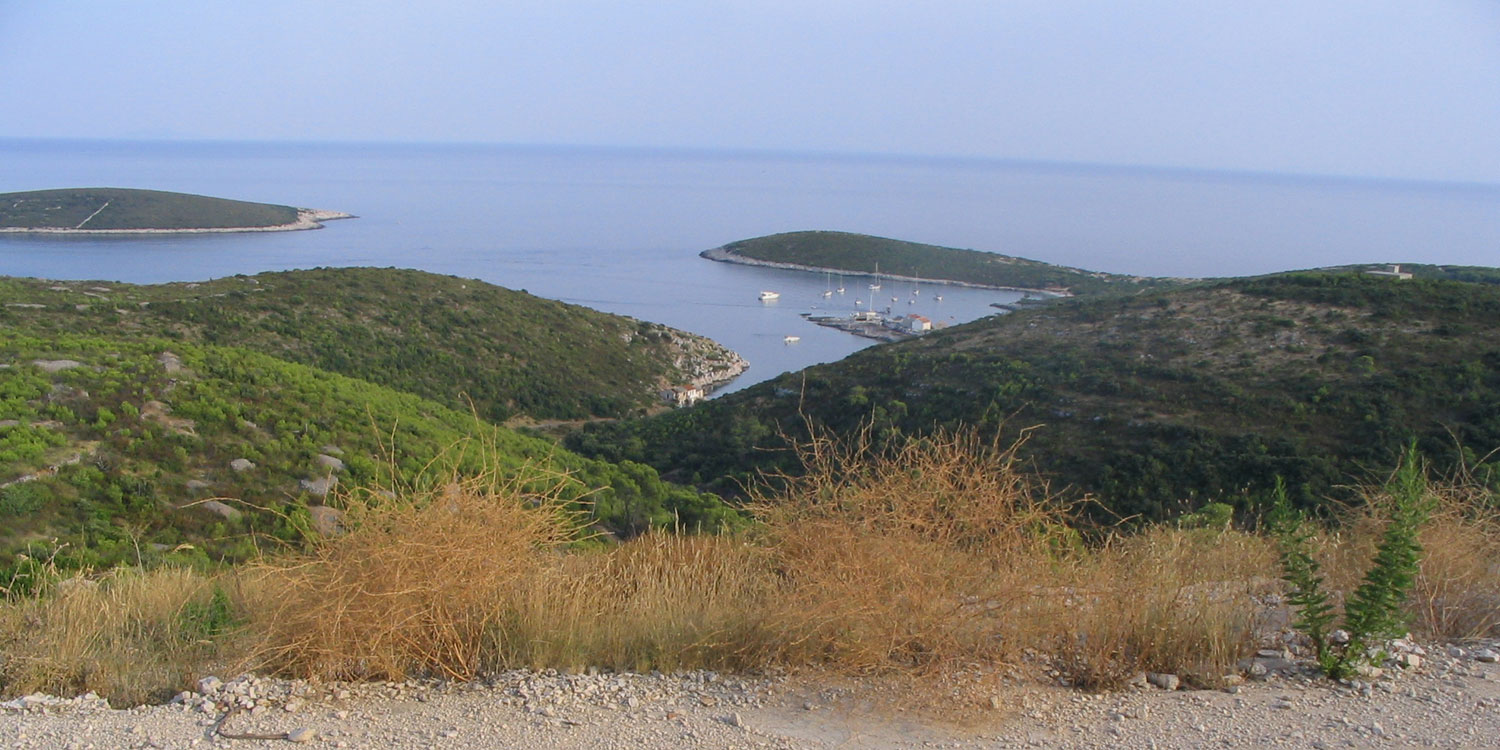 View at Rukavac, island of Vis, Croatia